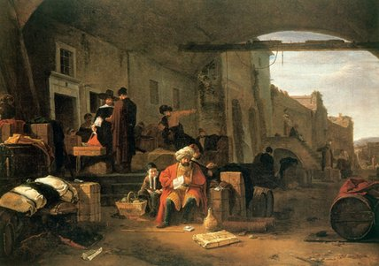 Merchants from Holland and the Middle East trading